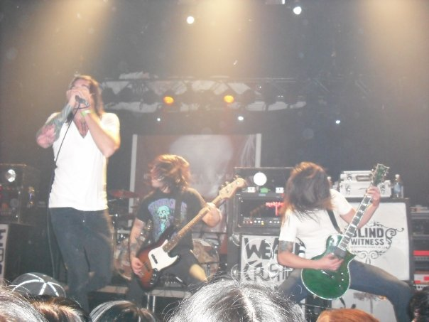 Artist Blind Witness live